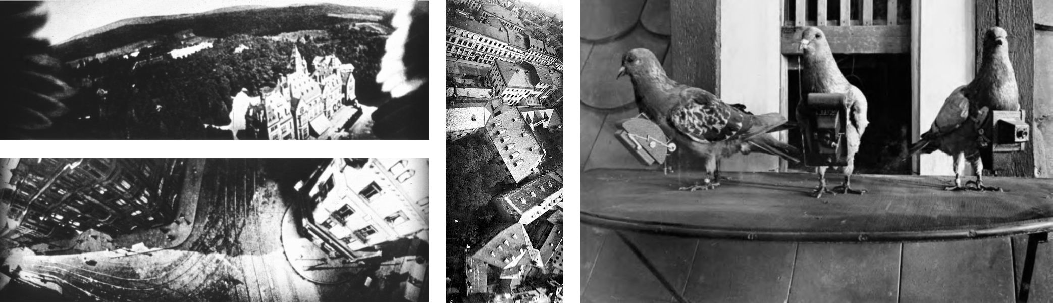 Collage of pigeons with Julius Neubronner's cameras and three aerial photos taken by the method.